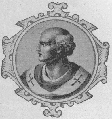 Papa Benedikt X (1058 – 1059)